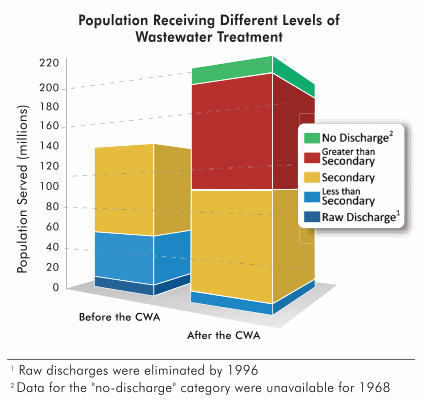 Caption: "Population Receiving Different Levels of Wastewater Treatment." Graph showing levels of municipal sewage treatment in the United States, before and after passage of the 1972 Clean Water Act (CWA). Data based on the 2000 EPA Clean Watershed Needs Survey.